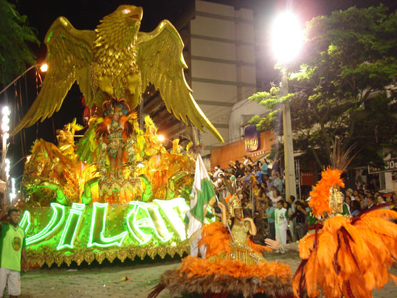 Vilage no Samba - Carnaval 2009